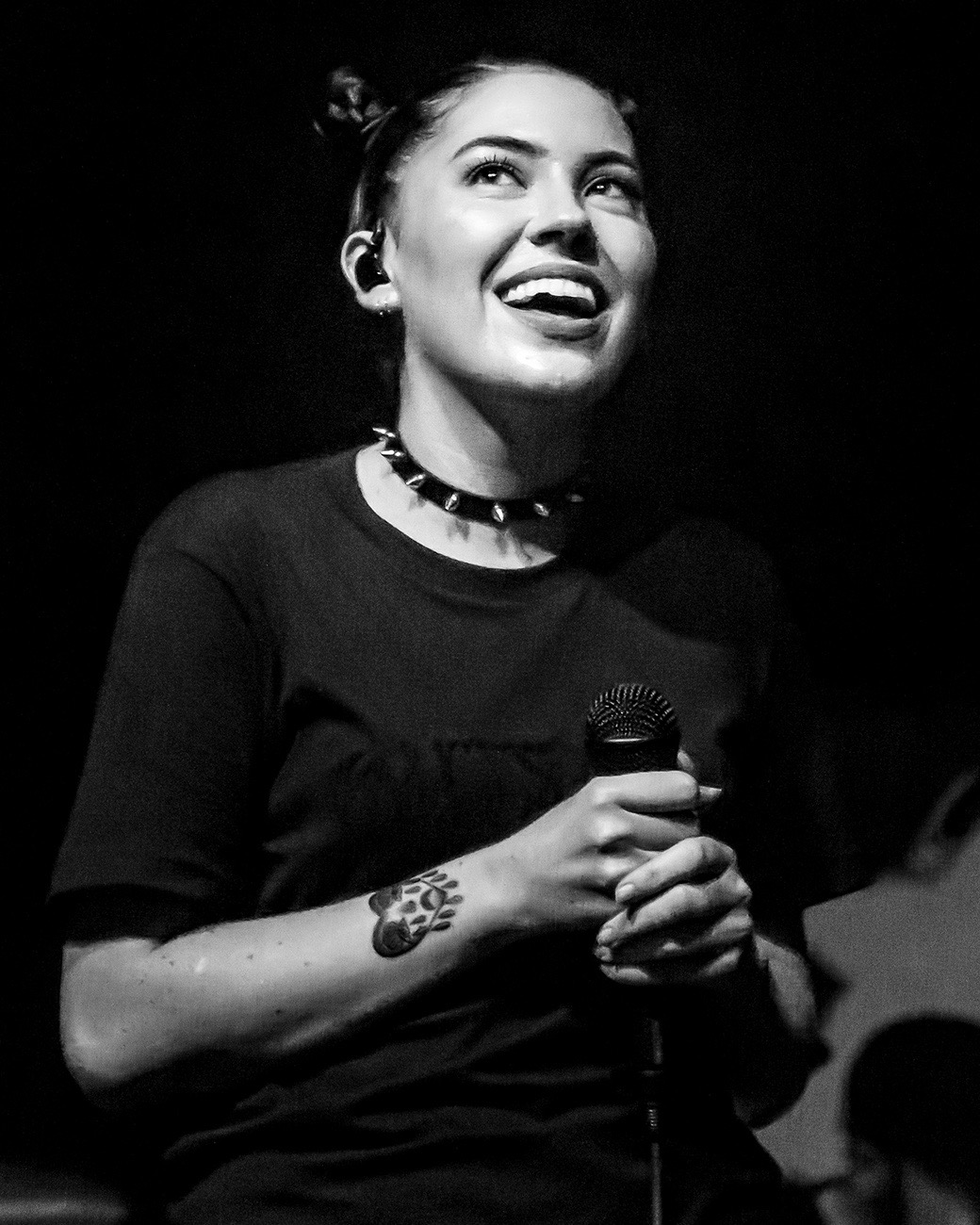 Bishop Briggs performing live at the El Rey theatre in Los Angeles, California.